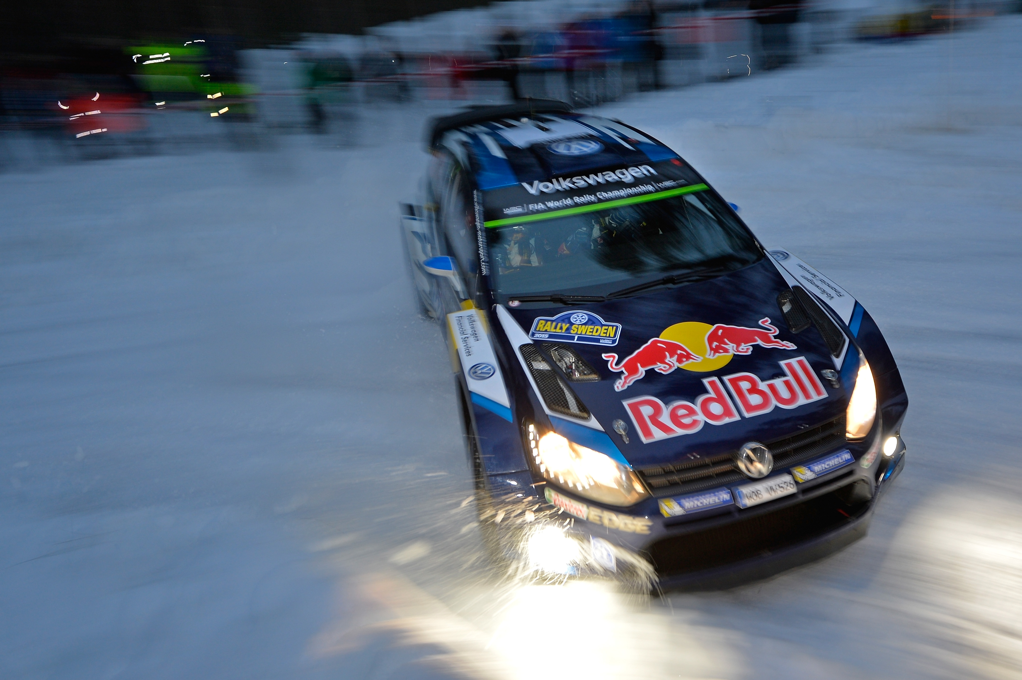 Sébastien Ogier and co-driver Julien Ingrassia in their VW Polo R WRC at the 2015 Rally Sweden.